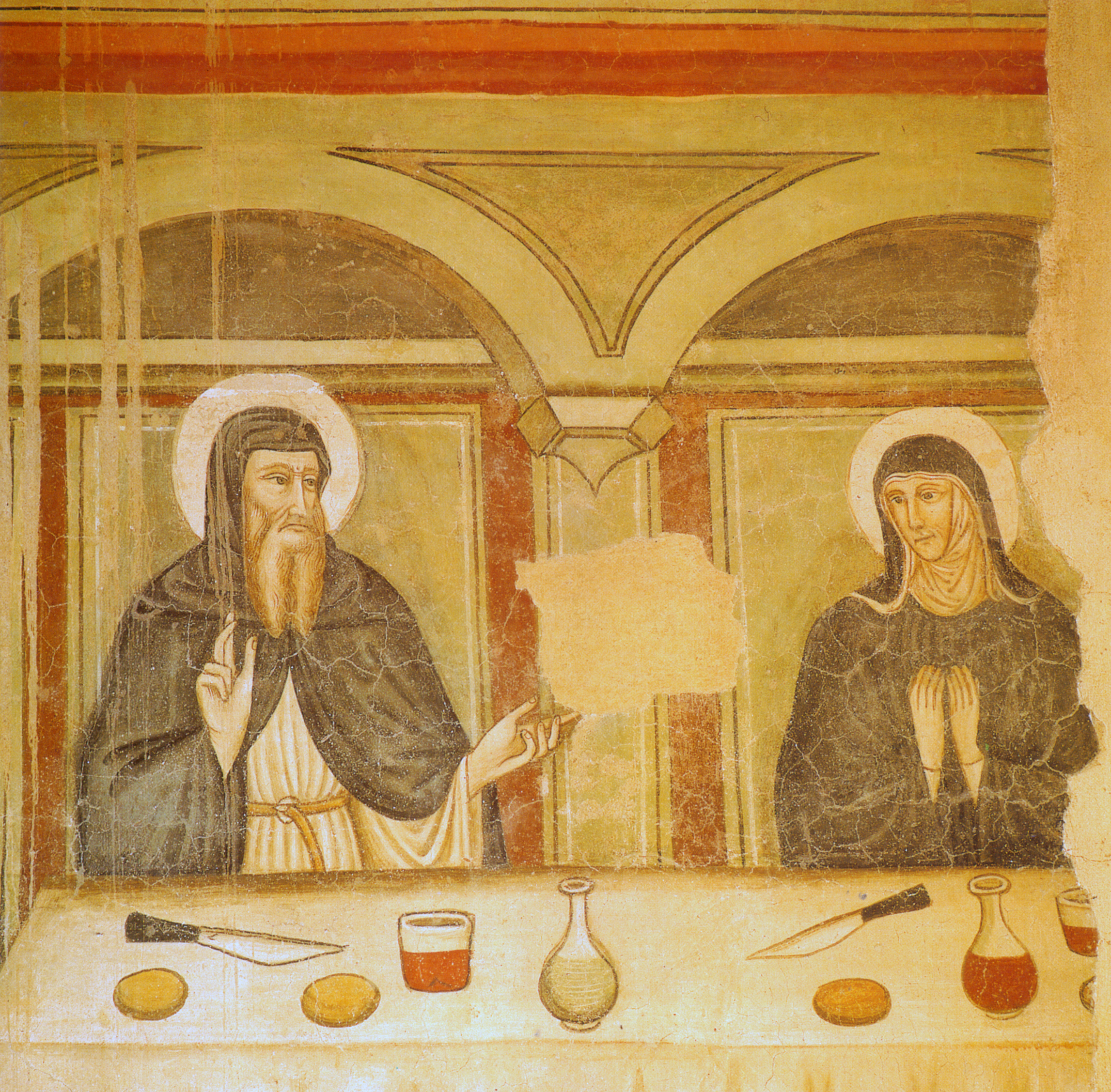 Saint Benedict and Saint Scholastica eating